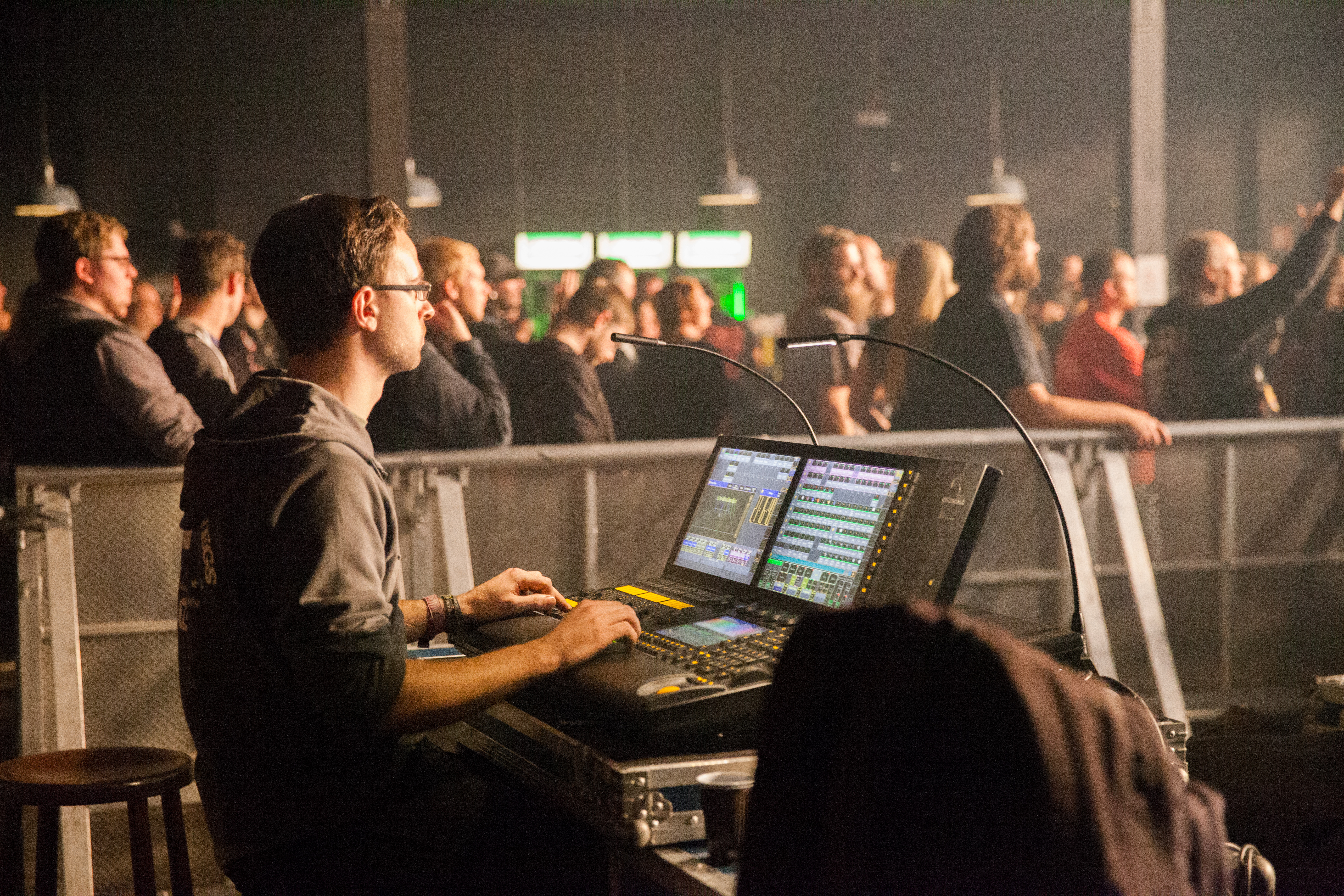 Front Of House with grandMA 2 Light lighting console